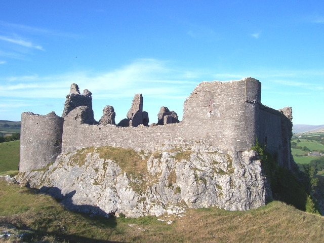 Carreg Cennen Castle. The first castle at Carreg Cennen would probably have been built by the Welsh Prince Rhys Ap Gryffydd in the 12th and 13th century. Though there is some evidence of Prehistoric and Roman occupation on the site. One legend suggests that the original fortress at Carreg Cennen dates back to the Dark Ages and the Welsh Knight Urien Rheged and his son Owain. Legend suggests they were knights during the reign of King Arthur. However, the existing remains date back to that period following the conquest of Wales by King Edward the First in the C14th. The initial conquest was followed by an extensive programme of castle building to consolidate his grip on this wild mountainous country. King Edward the first seized Carreg Cennen Castle in 1277 which was granted by the King to John Giffard who built the castle which remains today. The castle was eventually abandoned in 1462 following the Wars of the Roses at which time it was partially demolished by hundreds of men employed specifically to disable its effectiveness as a politically fortification.